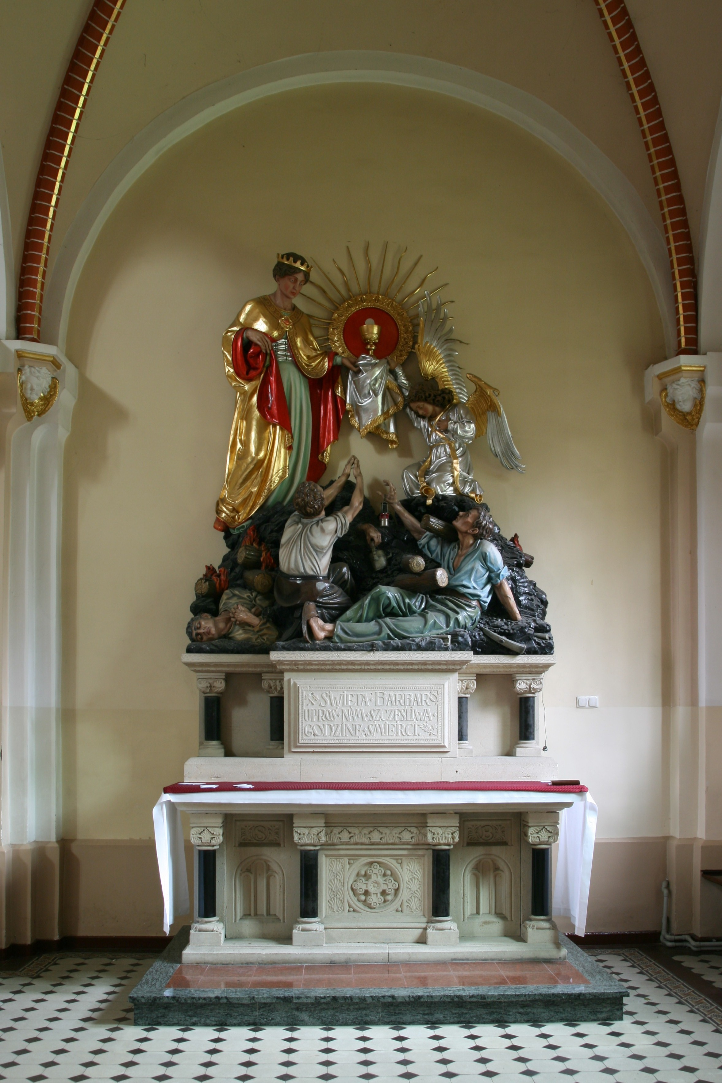 Altar of St. Barbara in Basilica of St. Luis the King in Katowice.